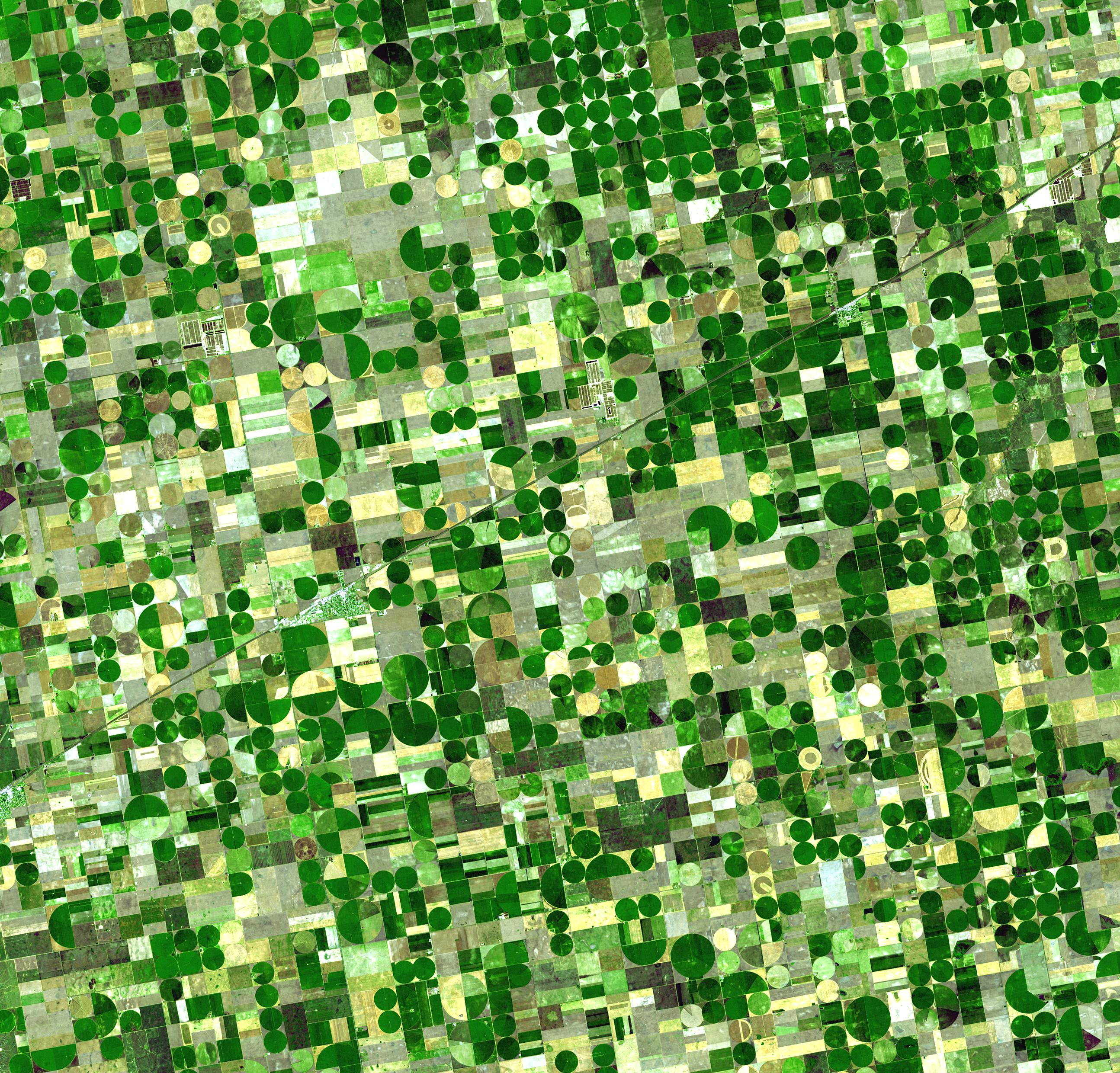 Satellite image of crops growing in Kansas, United States. Healthy, growing crops are green. Corn would be growing into leafy stalks by late June (when this photo was taken). Sorghum, which resembles corn, grows more slowly and would be much smaller and therefore, possibly paler. Wheat is a brilliant gold as harvest occurs in June. Fields of brown have been recently harvested and plowed under or lie fallow for the year. The circular crop fields are a characteristic of center pivot irrigation. The fields shown here are 800 and 1,600 meters (0.5 and 1 mile) in diameter. The image is centered near Sublette, Kansas at about 37.5 degrees north latitude, 100.75 degrees west longitude, and covers an area of 37.2 x 38.8 km. The 'grid' in which the fields are laid out runs north-south/west-east and the dark angled line is U.S. Route 56. The image is aligned with the satellite orbital track, which is in a 98 degrees tilted orbit. North is about 10 degrees counter-clockwise from up. The image is a false-color presentation made to simulate natural color. The 3 bands that were used are in the green, red, and near infrared parts of the spectrum. ASTER does not have a blue channel, so any blue that can be seen was created from the other bands.